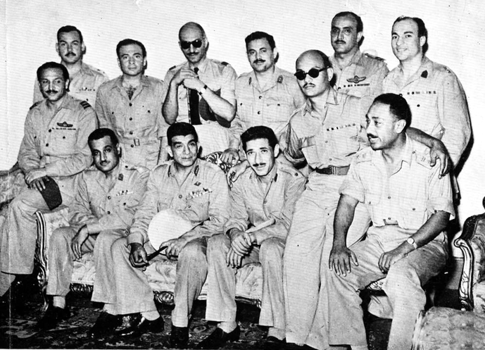 free officers group 1952 Egyptian revolution